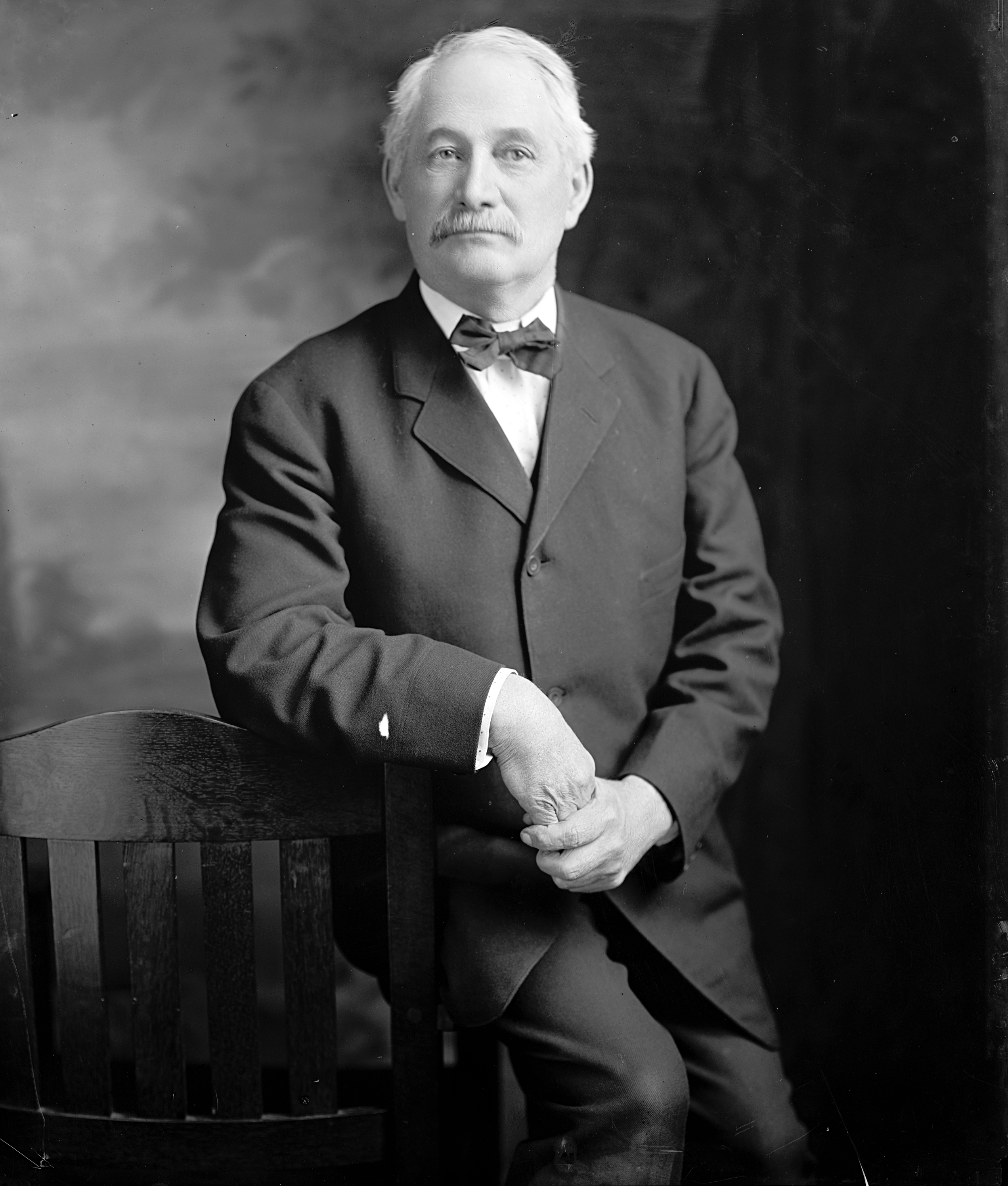 Joseph Grant Beale, US Representative from Pennsylvania